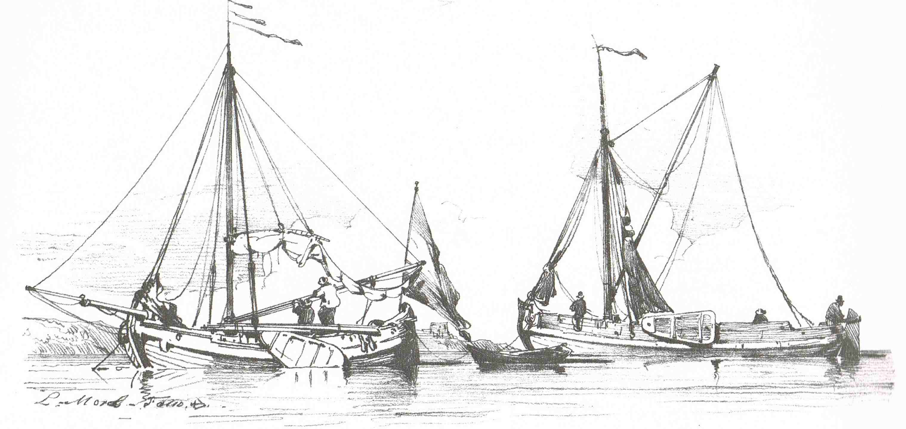 Bateaux hollandais